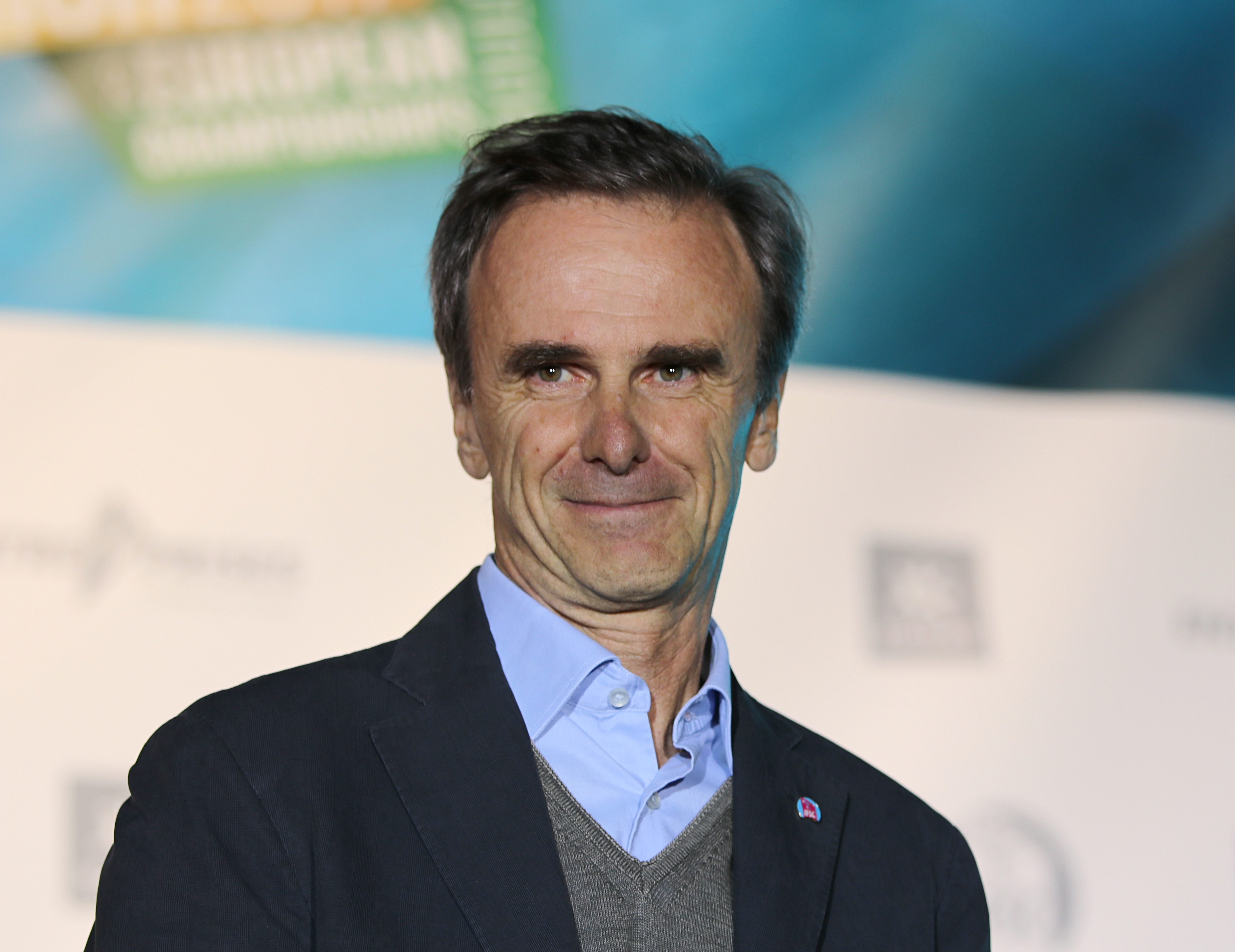 Marco Scolaris, president of the International Federation of Sport Climbing at the award ceremony for the Boulder Worldcup Finals 2017